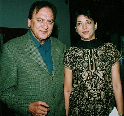 Sunil Dutt with daughter Priya at the premiere of Munnabhai MBBS